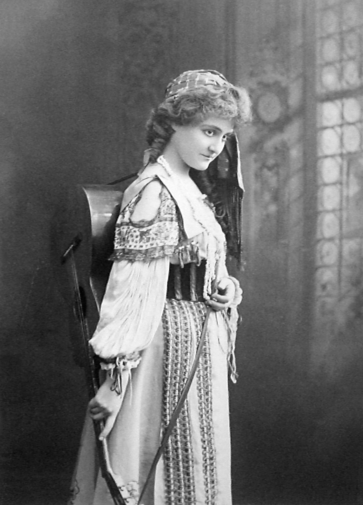 Promotional photograph of Ethel Jackson in Miss Bob White